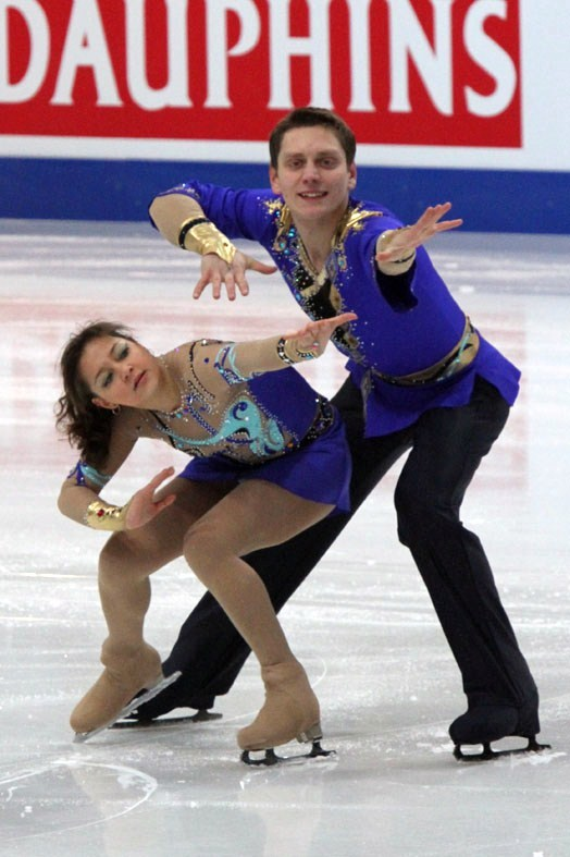 Lubov Bakirova / Mikalai Kamianchuk at the 2011 European Figure Skating Championships.